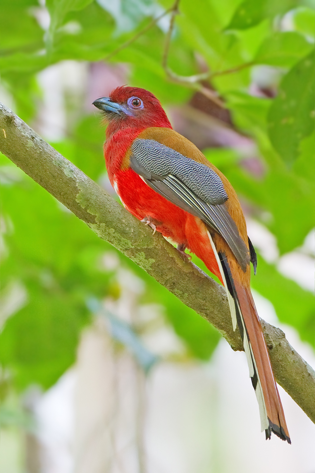 Red-headed Trogon (Harpactes erythrocephalus), Khao Yai National Park, Pak Chong, Thailand